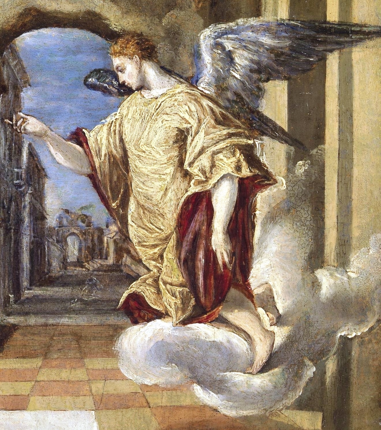 Archangel Gabriel, detail of The Annunciation by El Greco.